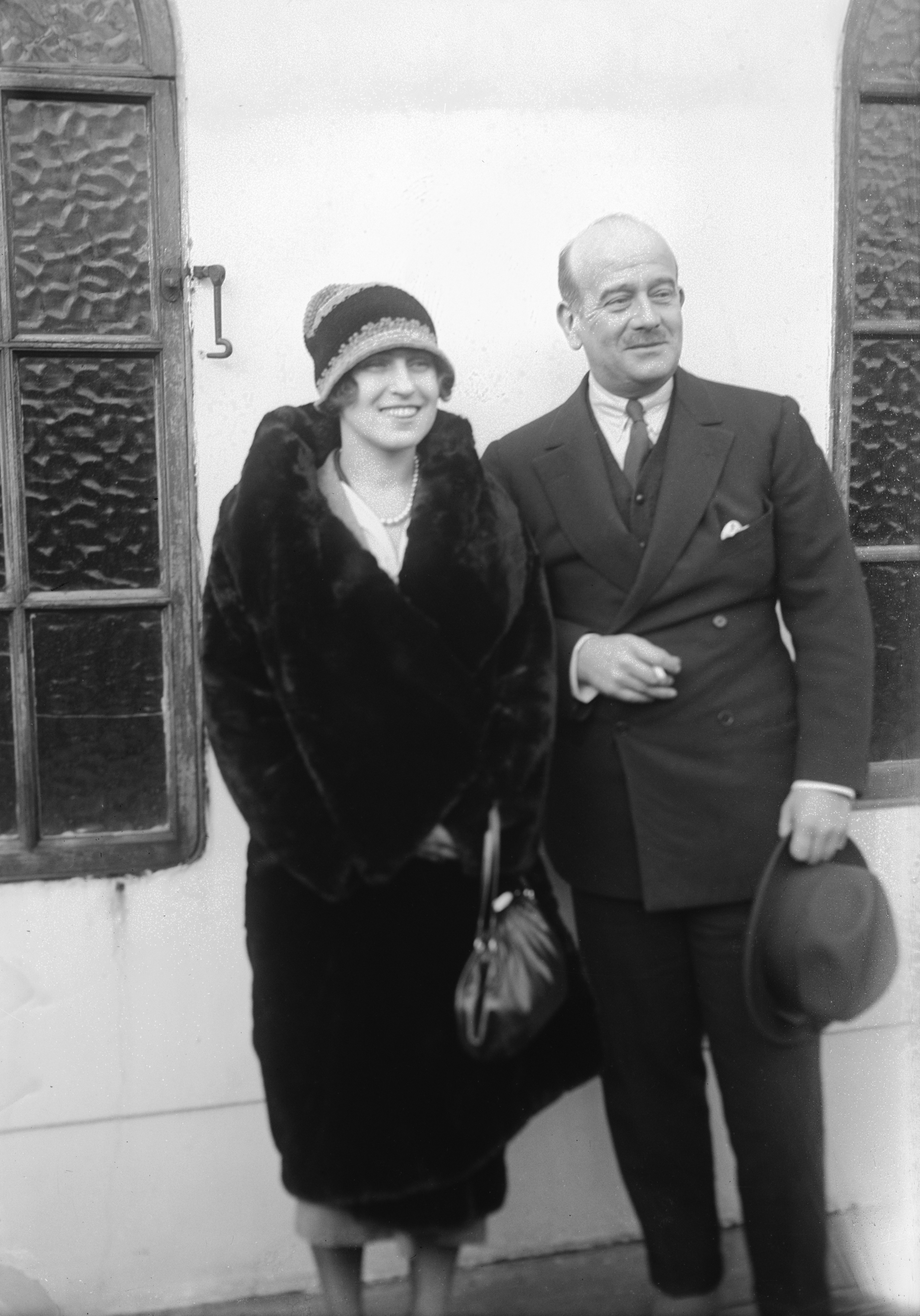 Grand Duke Boris Vladimirovich of Russia and his wife Zinaida Rachevskaya during their visit to the USA.